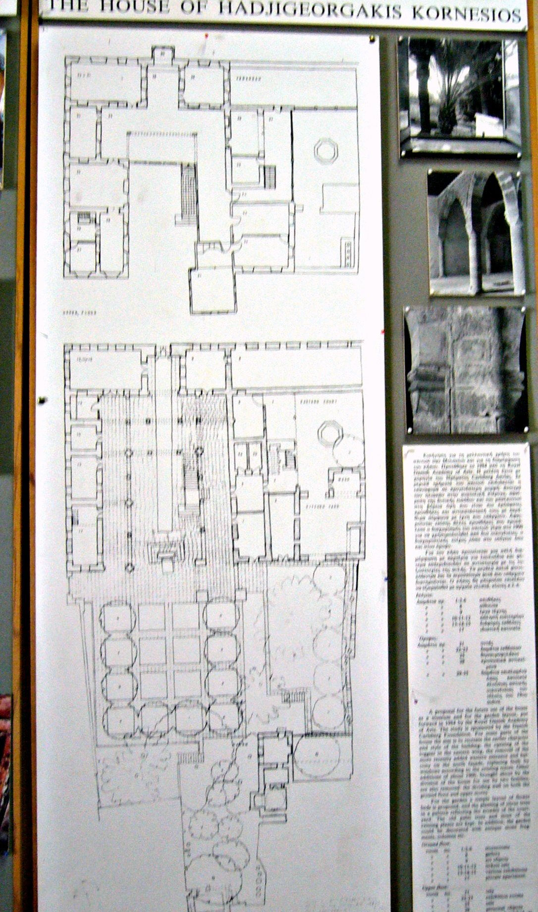 Architectural Plan of the Hadzhigeorgakis Kornesios'house (now Ethnographic Museum) in Nicosia, Cyprus.